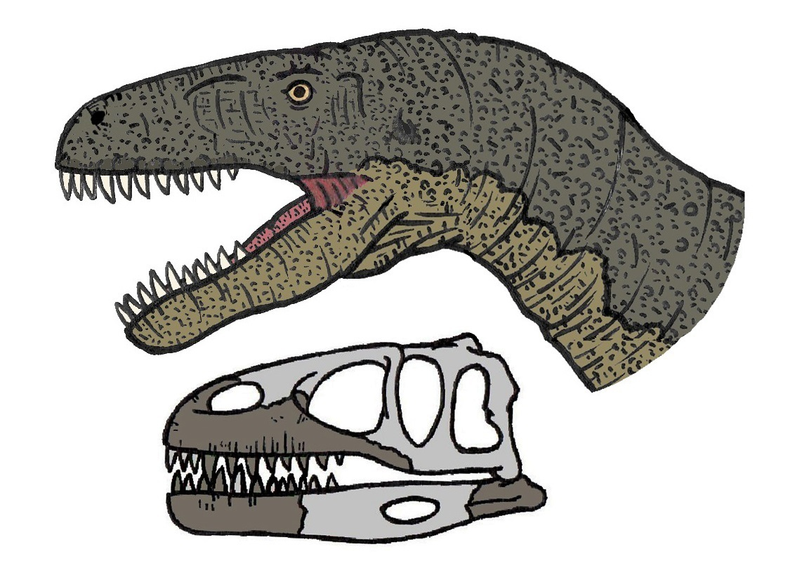 Skull and life restoration of Megalosaurus bucklandii skull. Megalosaurus was one of the first described dinosaurs.